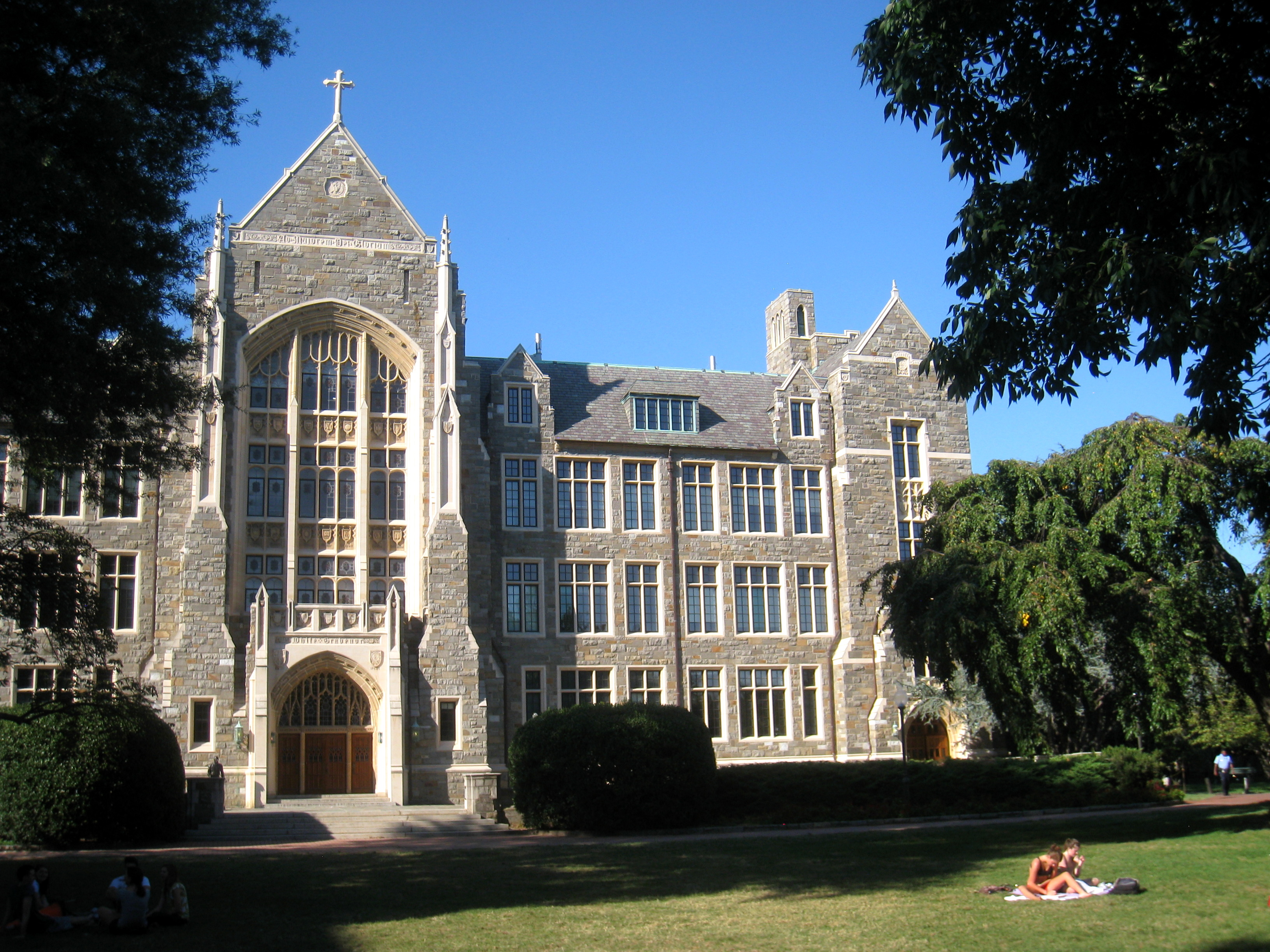 Georgetown University, Washington, DC, USA. White-Gravenor.